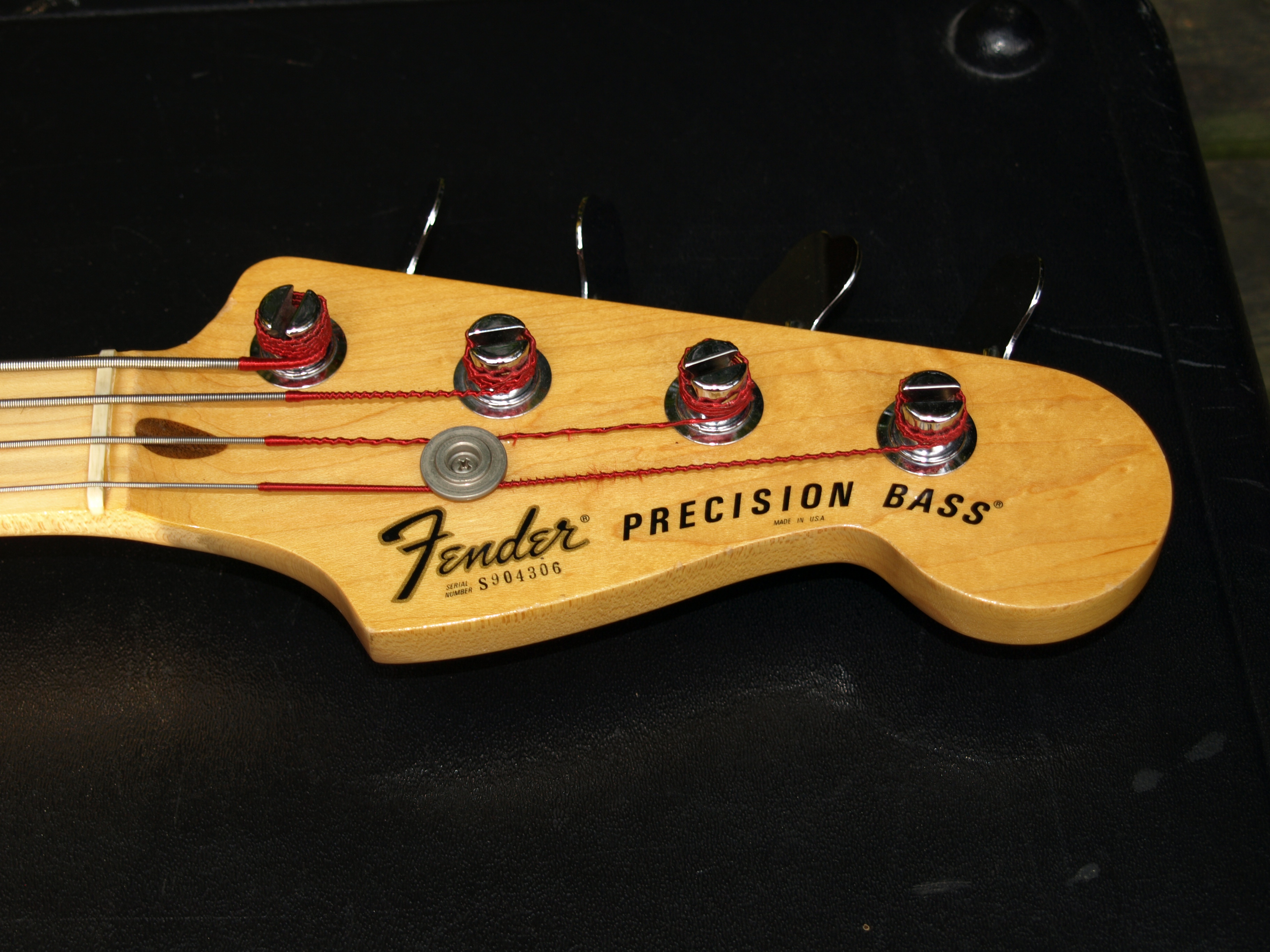 1981 Fender Precision Bass machine head end (Rotosound Swing Bass 66 strings). Privately owned by uploader, image taken in England.